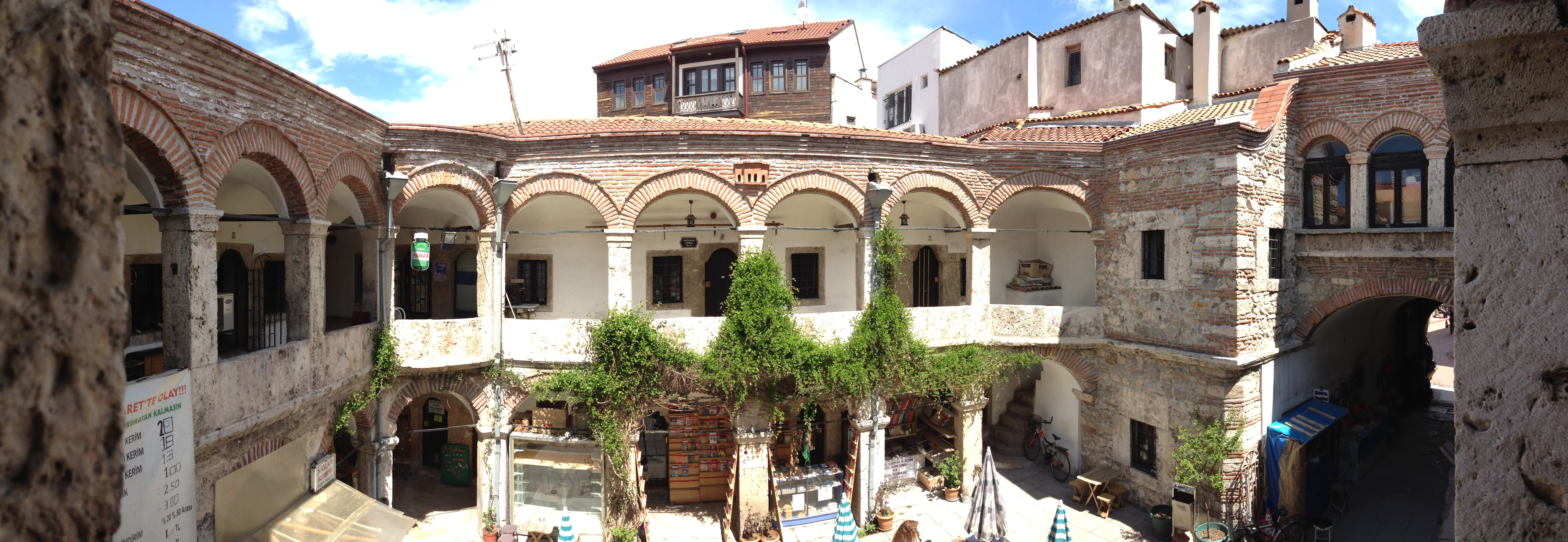 Bolu, Merkez'de Osmanlı'dan kalma taşhan panorama görüntüsü